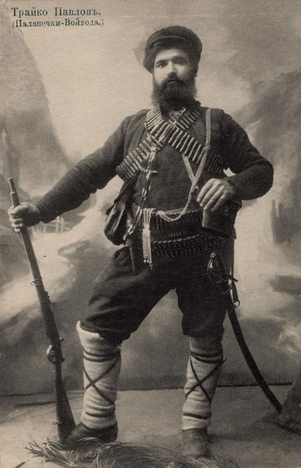 Portrait of IMARO member Trayko Pavlov